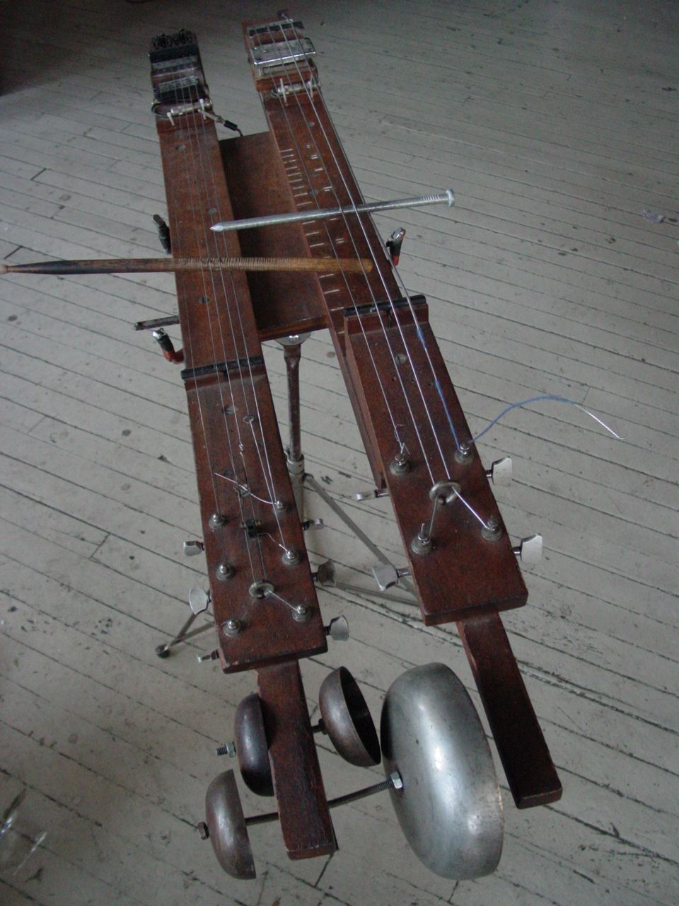 The pencilina, an experimental instrument